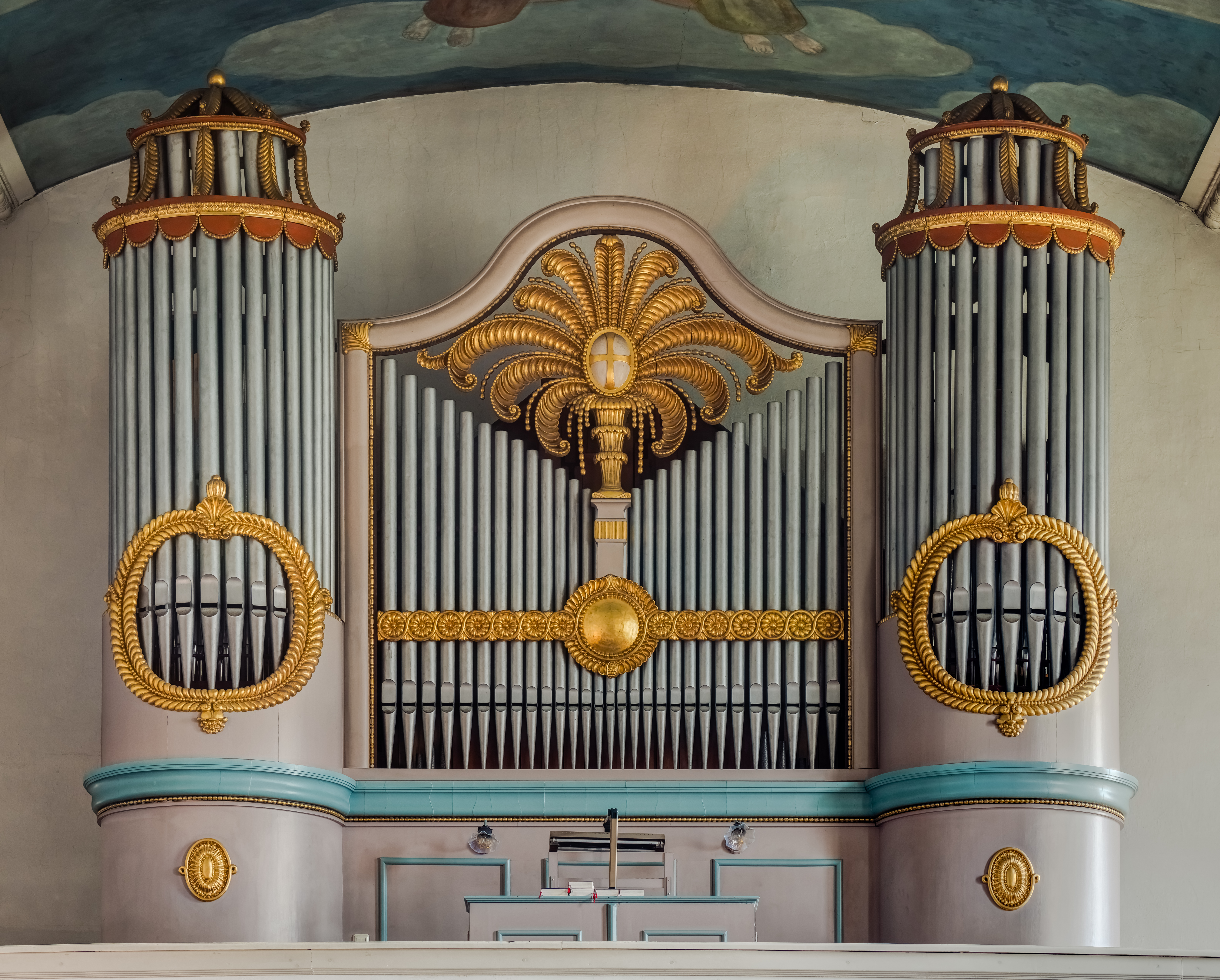 Pipe organ in the church St.Peter and Paul in Langensendelbach